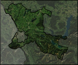 Austria Salzburg-Umgebung (Flachgau) political borders + satellite image